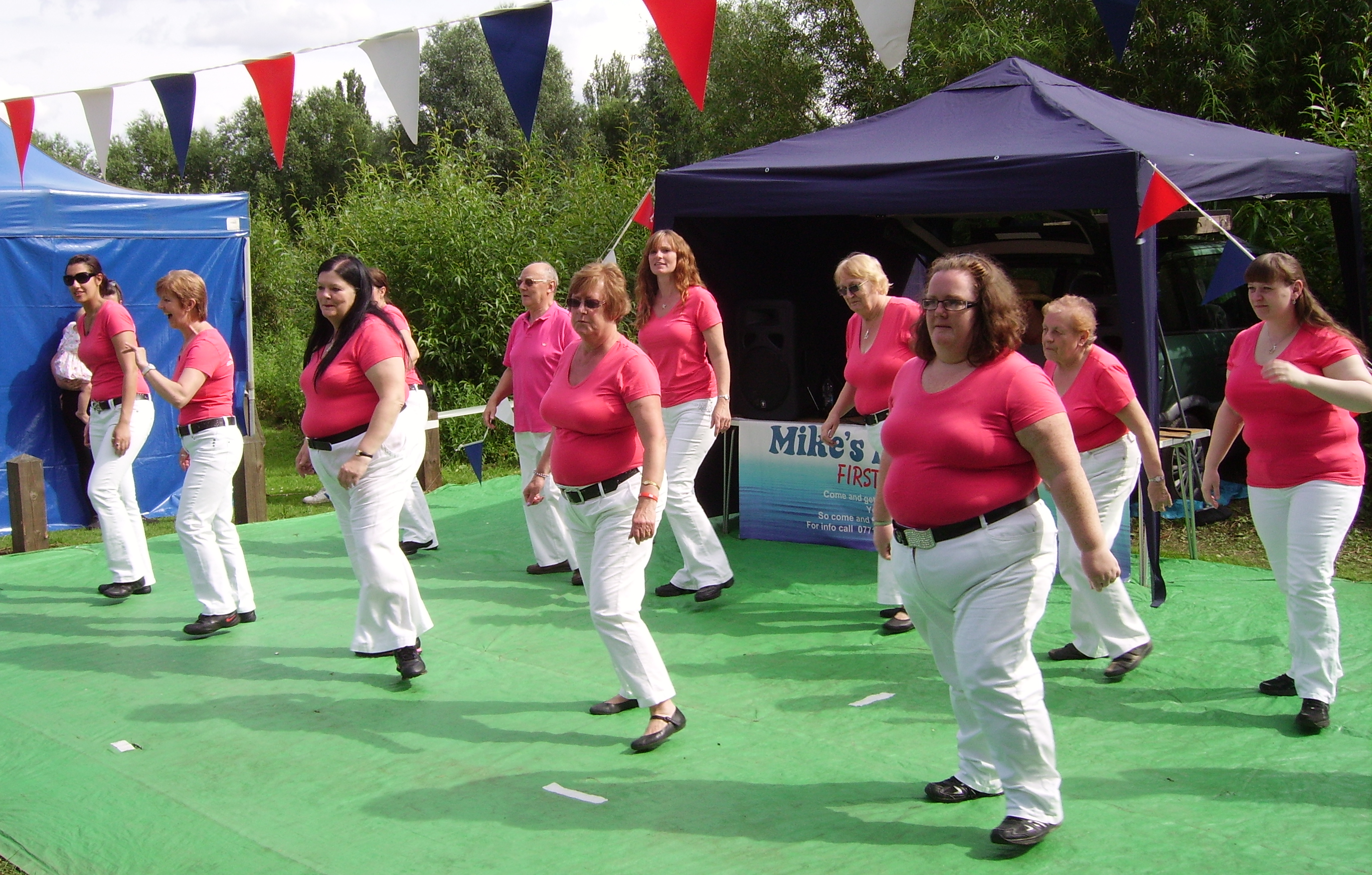 A line dance display at the 2012 Bedford River Festival.